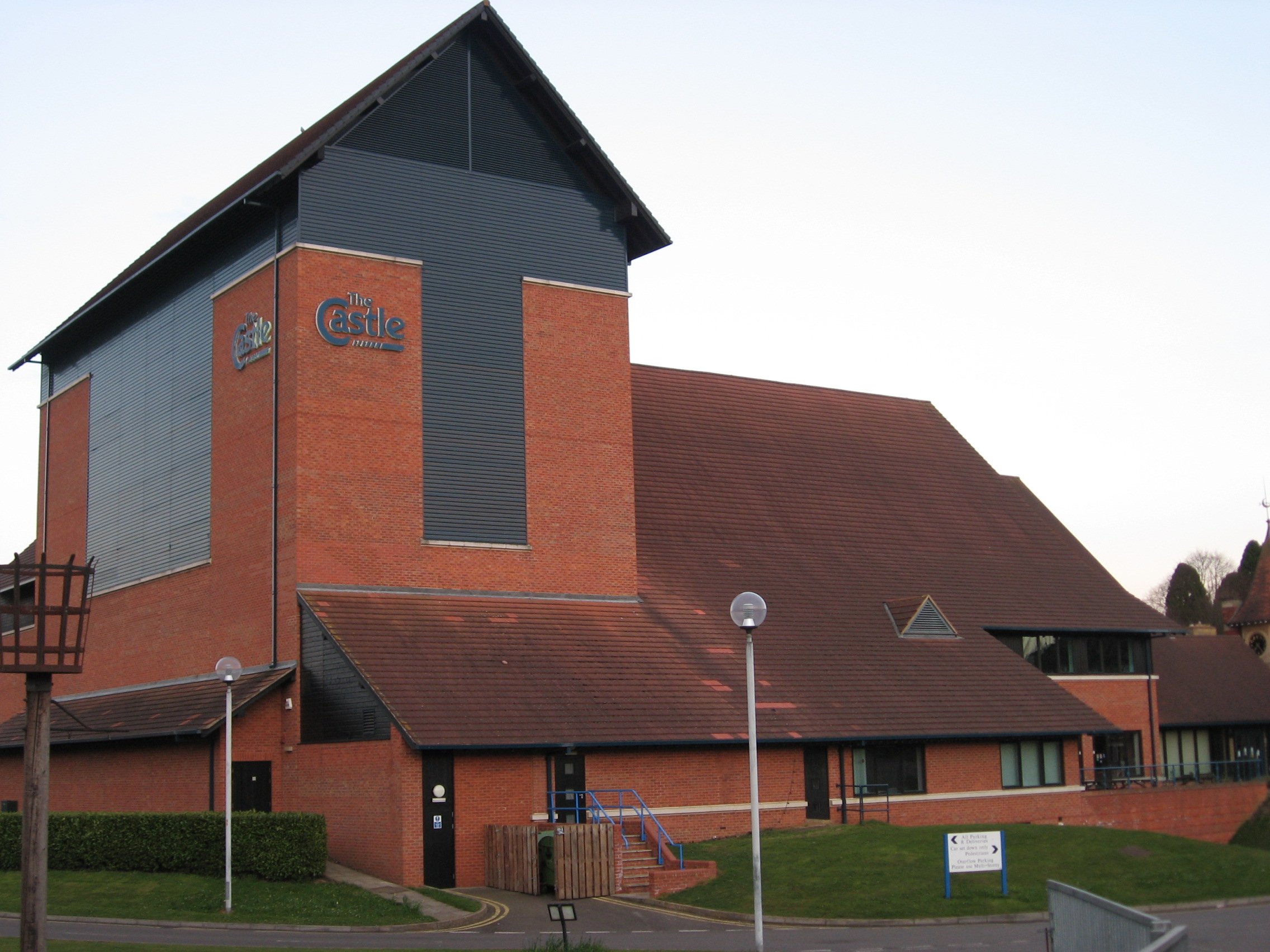 The Castle